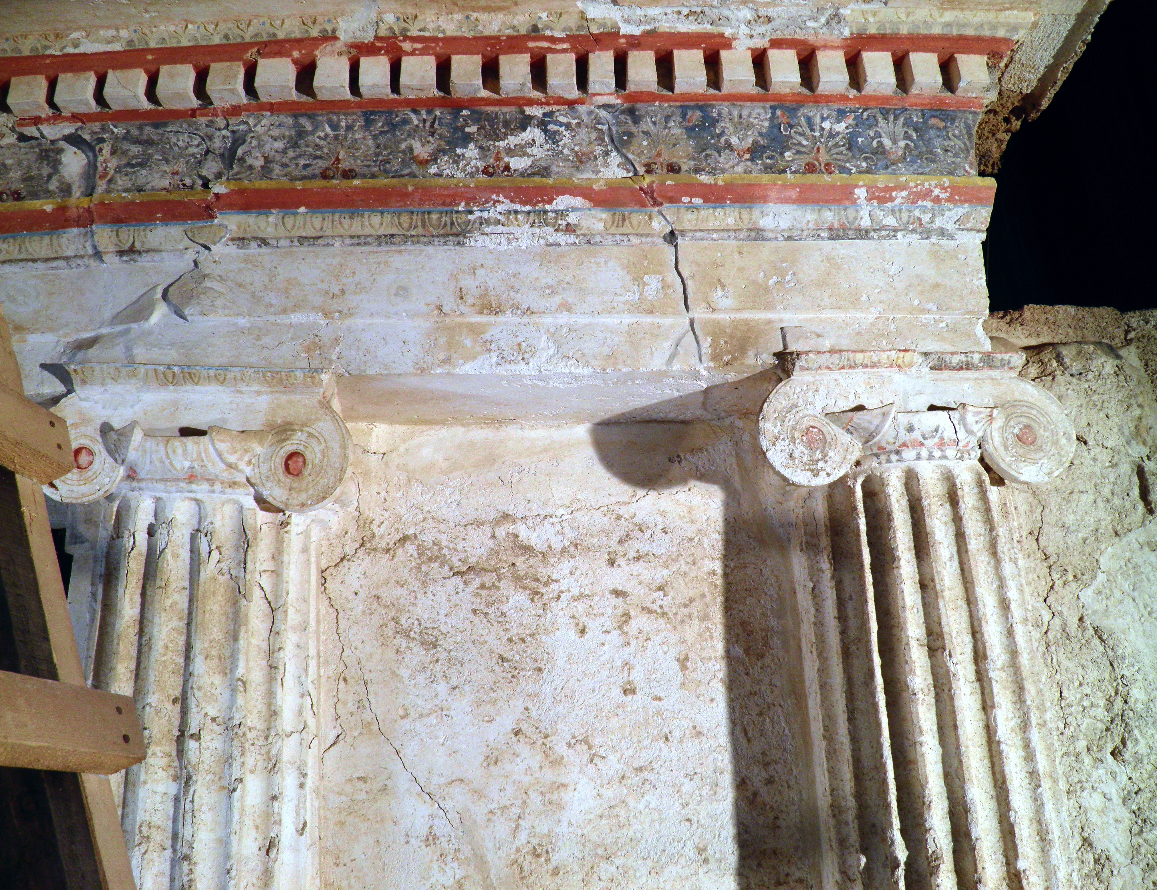 The facade of the the Tomb of the Palmettes, first half of the 3rd century BC, Ancient Mieza